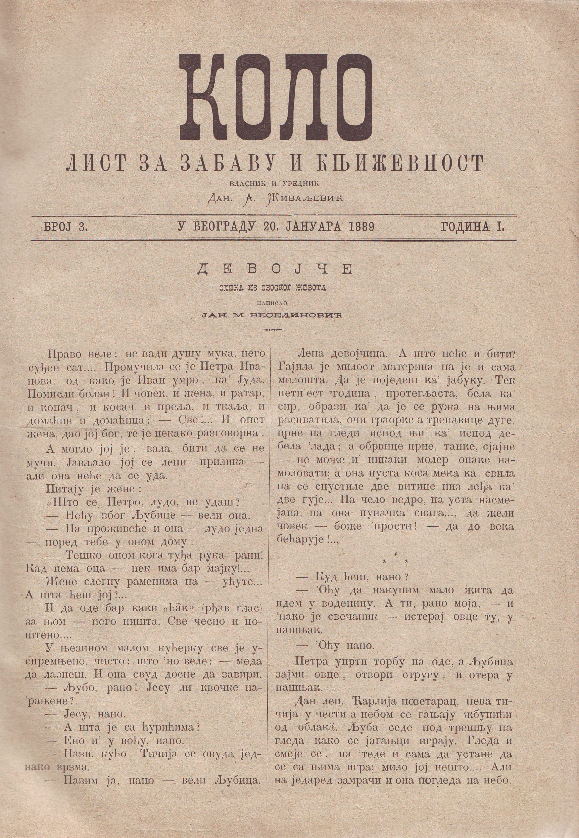 Front page of the Kolo, magazine for entertainment and literature from 20 January 1889. Srpski (latinica): Naslovna strana izdanja lista za zabavu i književnost Kolo od 20. januara 1889. godine.